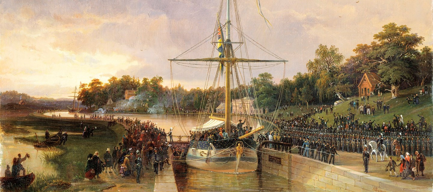 Gotha Canal Inauguration, 1832, Sweden